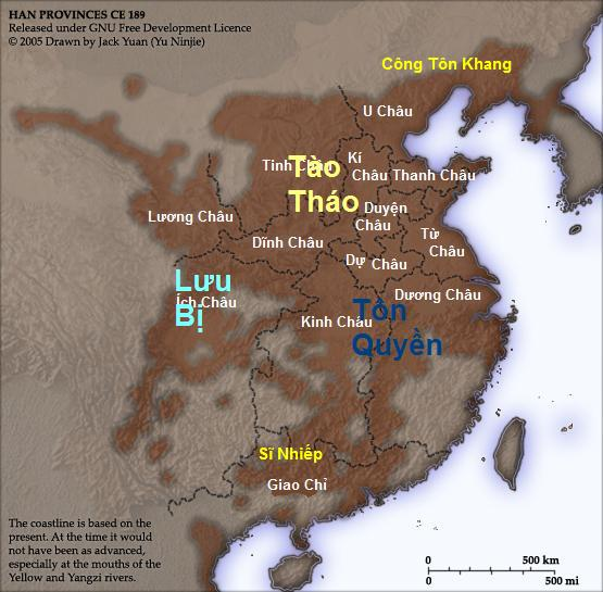 Vietnamese version of Image:Warlords in 215.jpg